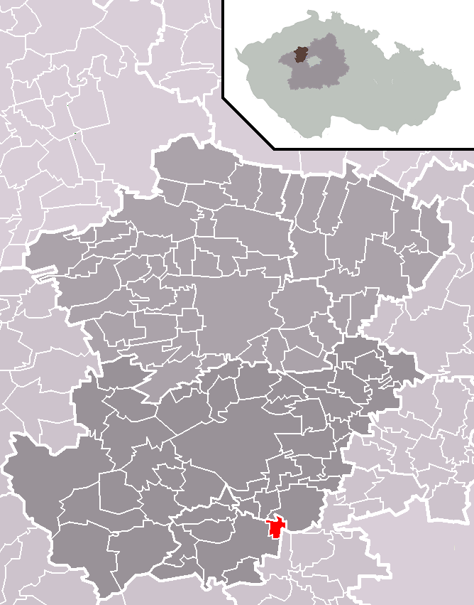 Location of Pavlov municipality within Kladno District and administrative area of Kladno as a Municipality with Extended Competence.